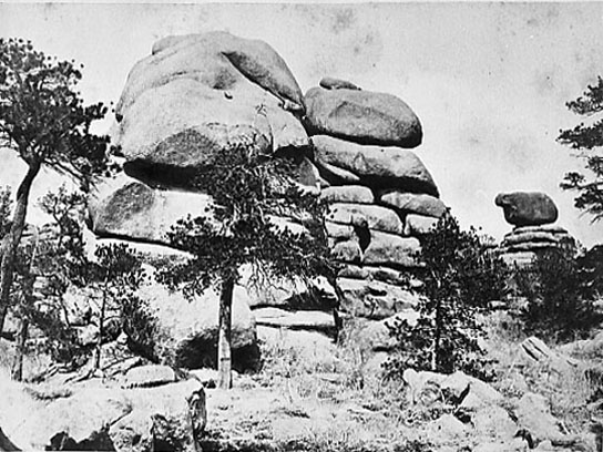 Granite rock, Laramie Mtns, WY